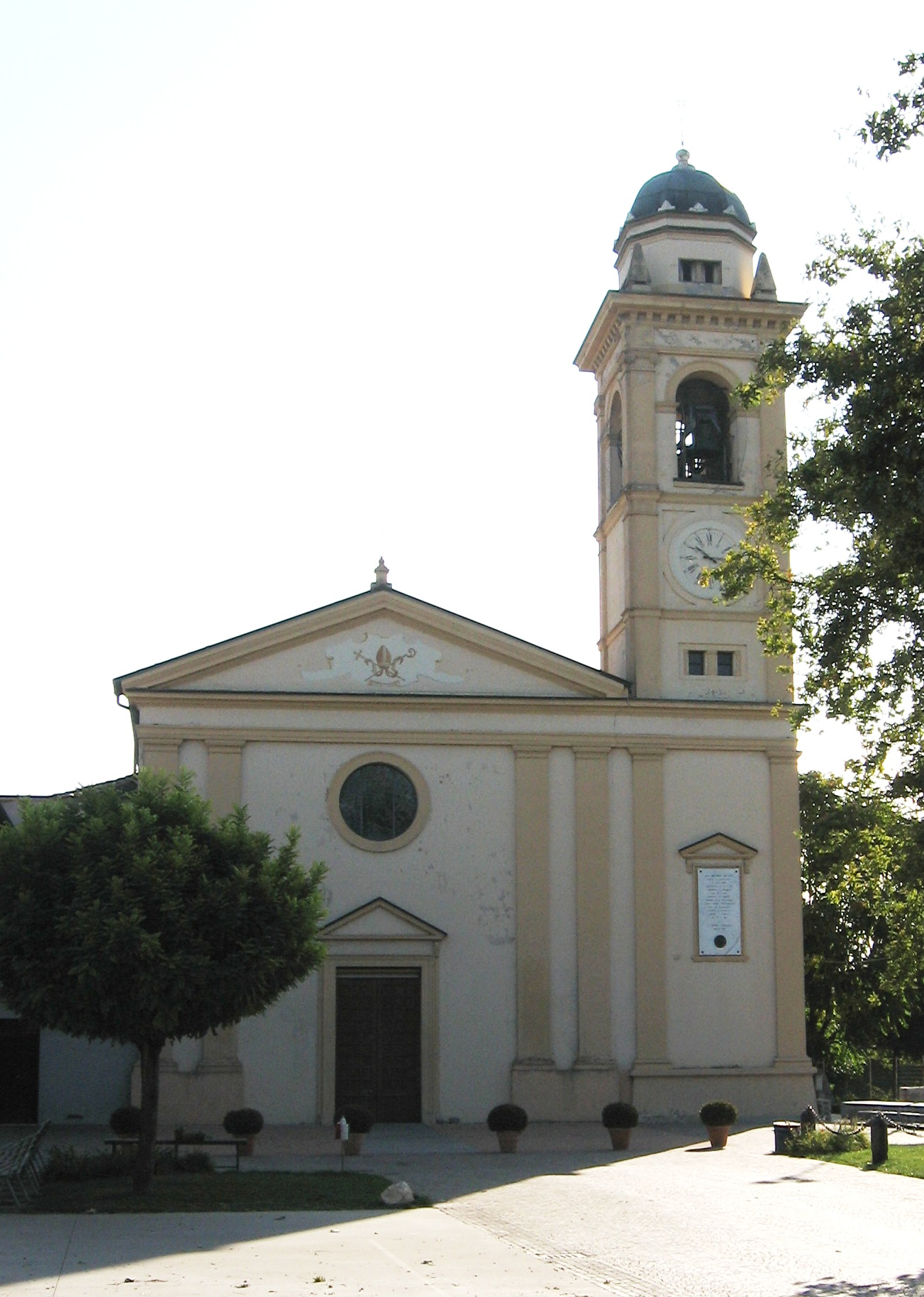 the Church of Coenzo (PR)